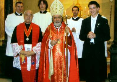 Modified in psp ordered by the praelat; free of use